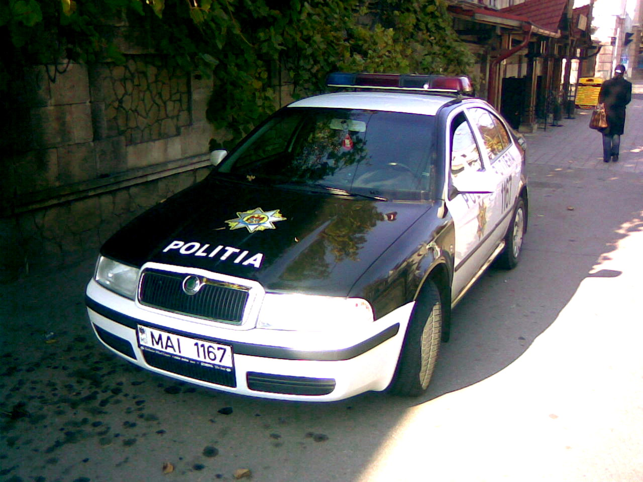 Skoda Octavia police car in Chisinau, Moldova